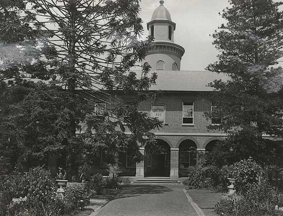 Liverpool State Hospital Dated: pre-1958 Digital ID: 4346_a020_a020000173 Rights: We'd love to hear from you if you use our photos. Many other photos in our collection are available to view and browse on our website using Photo Investigator.